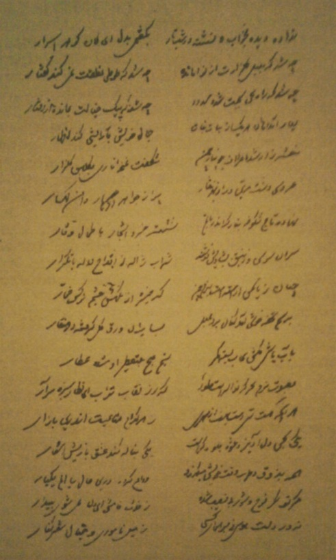 Autograph of Eastern poem to death of Pushkin